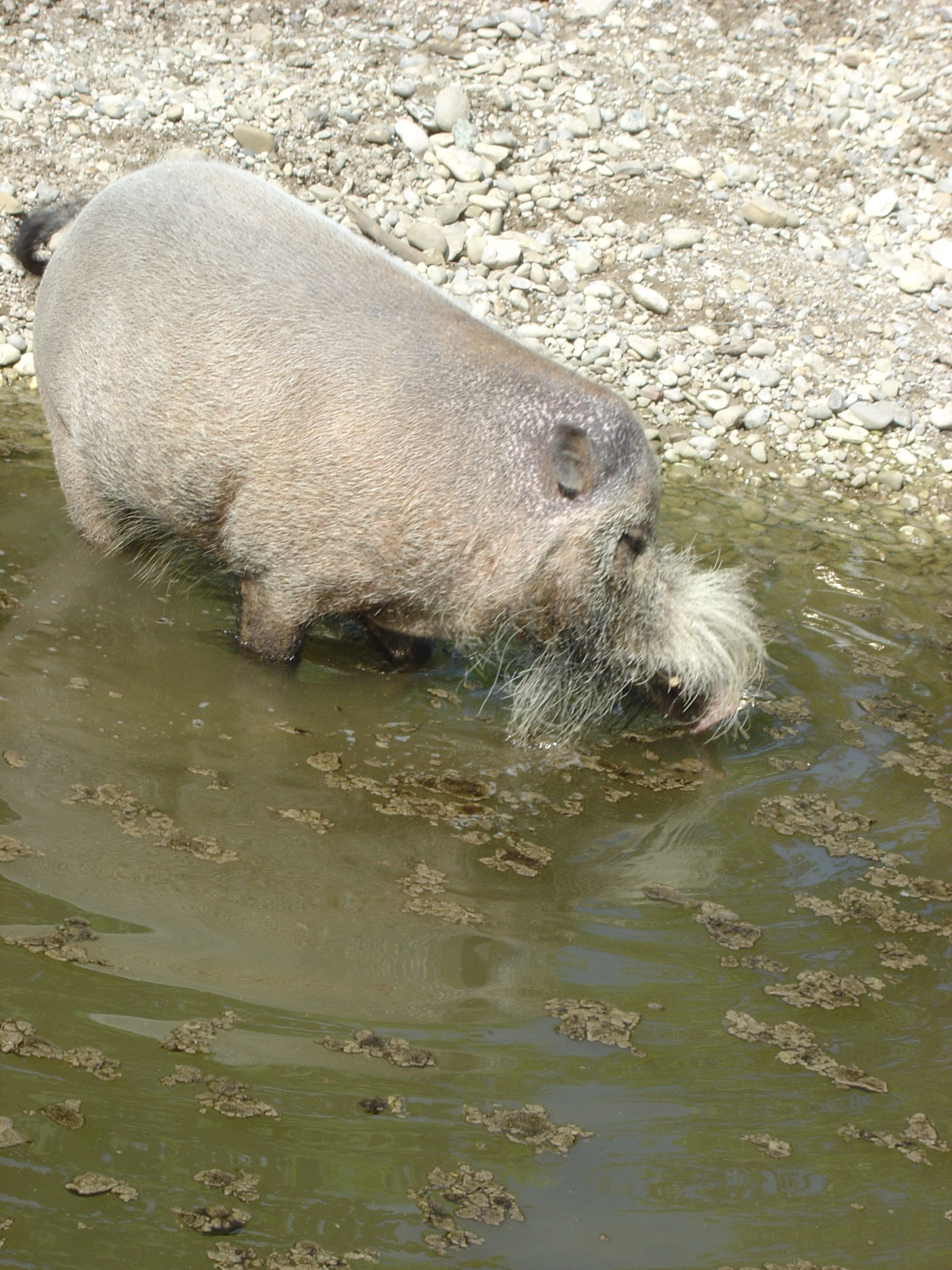 Bearded pig, Tierpark Hellabrunn, Munich, Germany